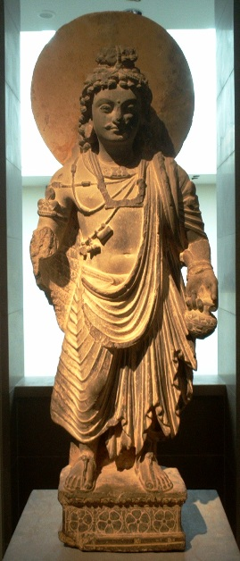 Kushan Maitreya. Musee Guimet, Paris. Personal photograph, 2004. Afbeelding:Kushan Maitreya.jpg